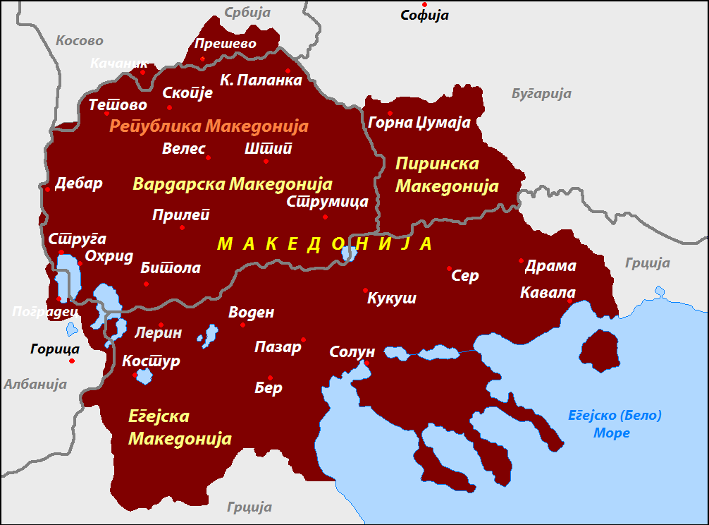 Geographical areas of the region Macedonia with present day borders (on Macedonian)